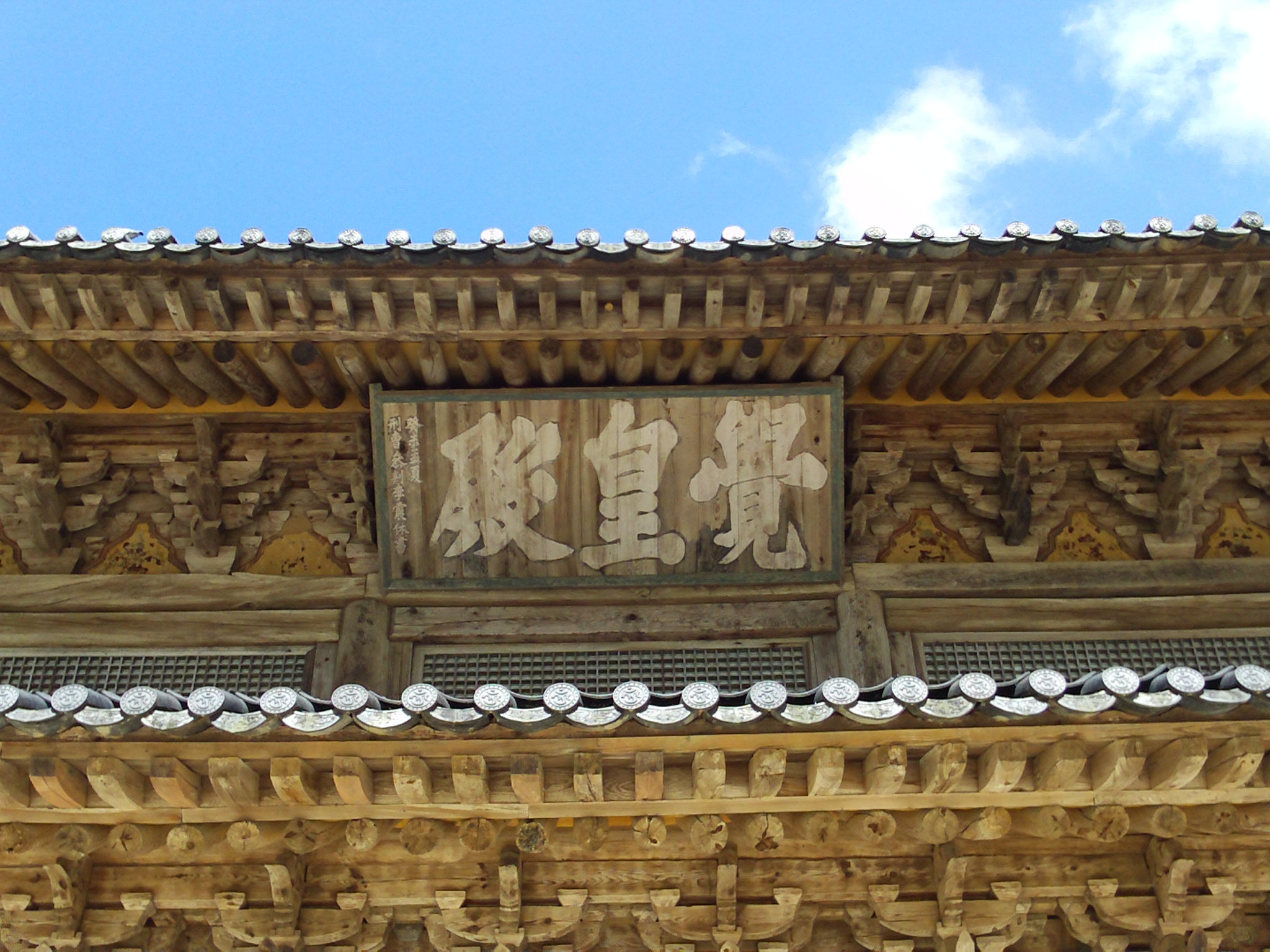 The name tablet of Gakhwangjeon Hall at the temple of Hwaeomsa, with Dancheong or traditionally painted eaves.